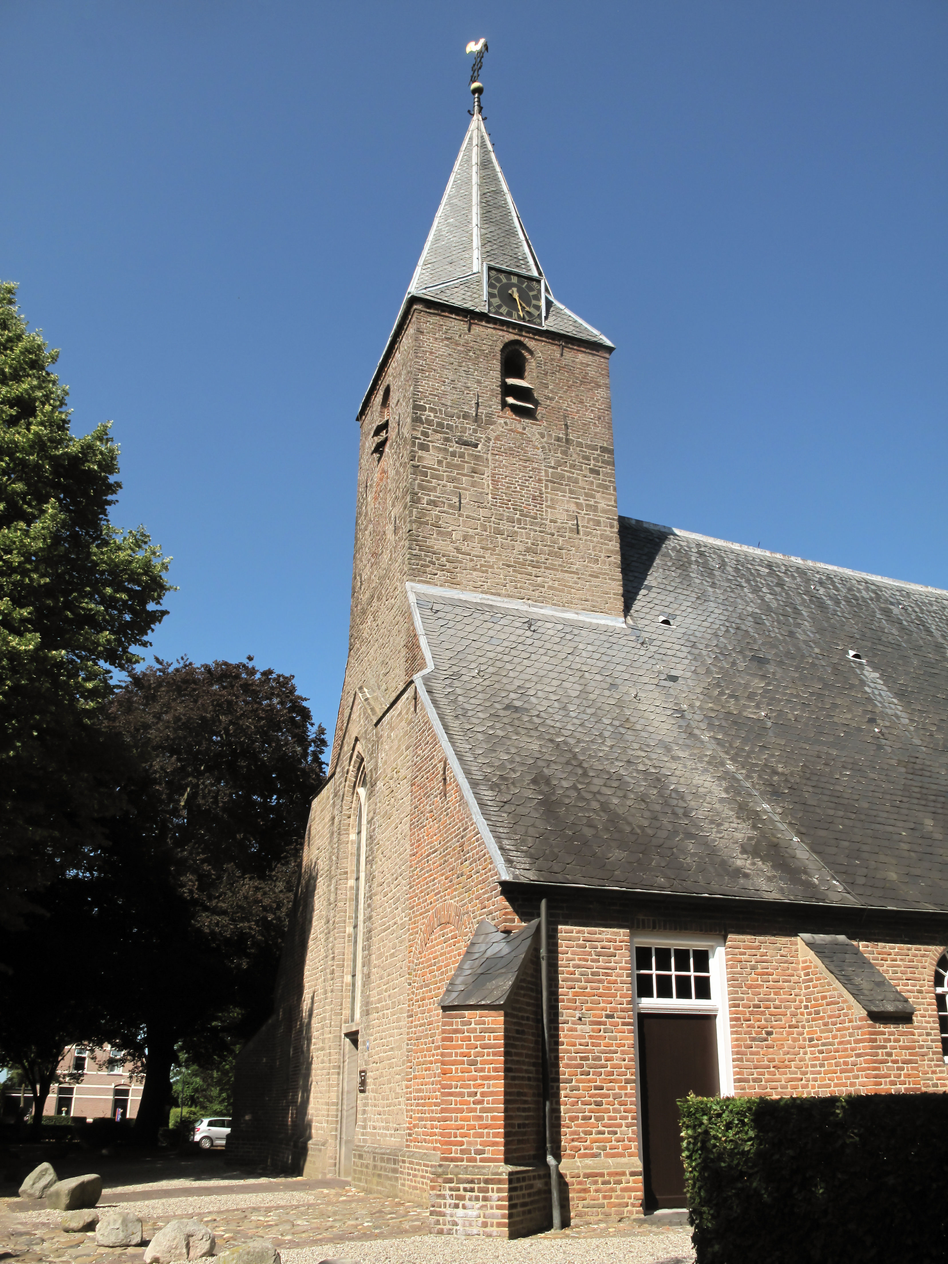 Oene, reformed church Dionysius